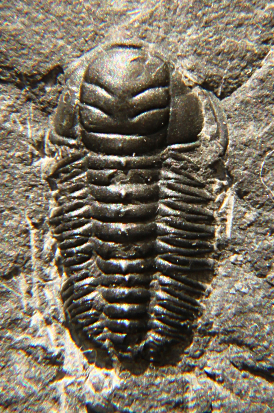 A Triarthrus eatoni trilobite, order Ptychopariida, family Olenidae, 11 mm long, found in the Frankfort Shale, New York, USA, from the Upper Ordovician